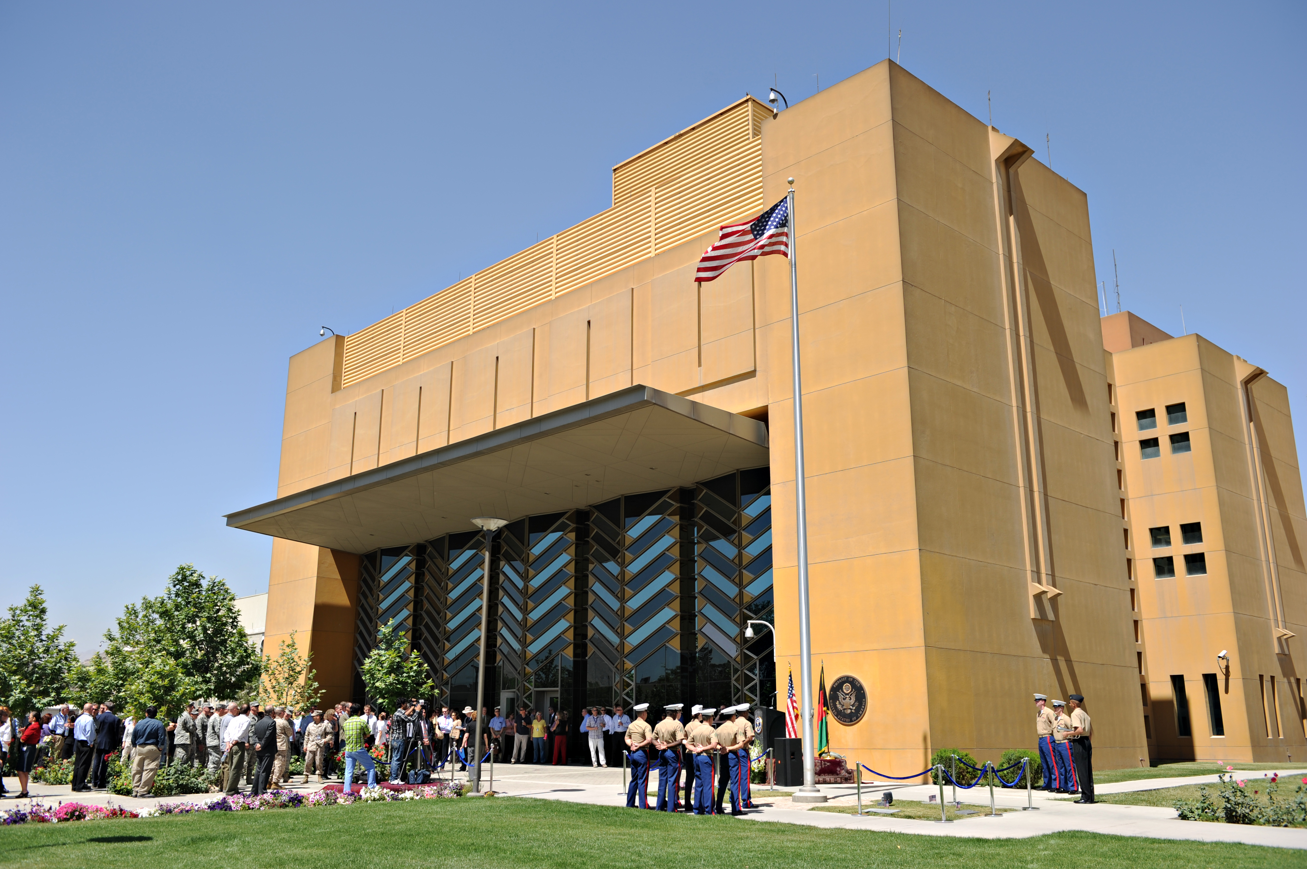 Memorial Day at the U.S. Embassy in Kabul, Afghanistan.